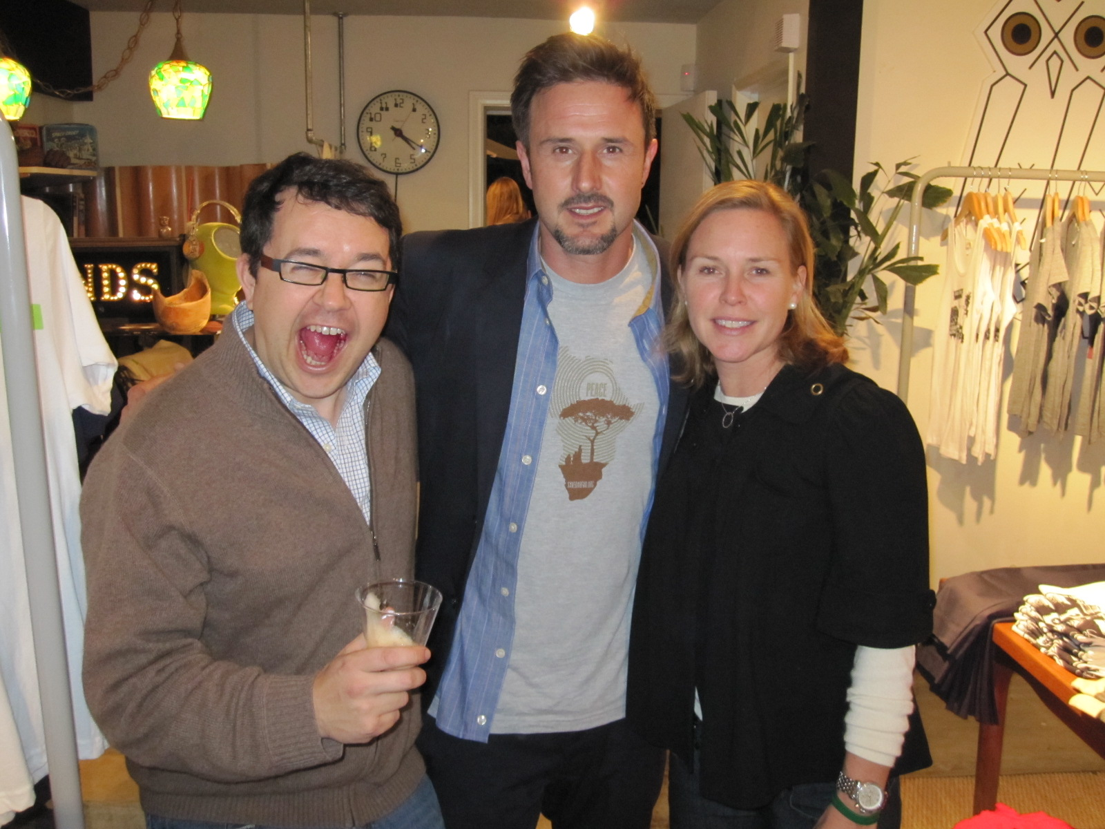 Wine blogger Hardy Wallace and actor David Arquette with unidentified woman